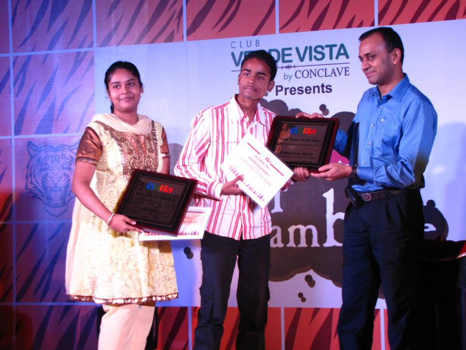 TTIS Jamboree 2013 was held at Club Verde Vista. In the Photo, Suman Banerjee, VP, Circulation, ABP Pvt Ltd, the Chief Guest at the award ceremony is giving the prize and certificates to the joint winners of "Star Tiger Reporter Of The Year" Award, Kalicharan Shaw and Ishita Roy.